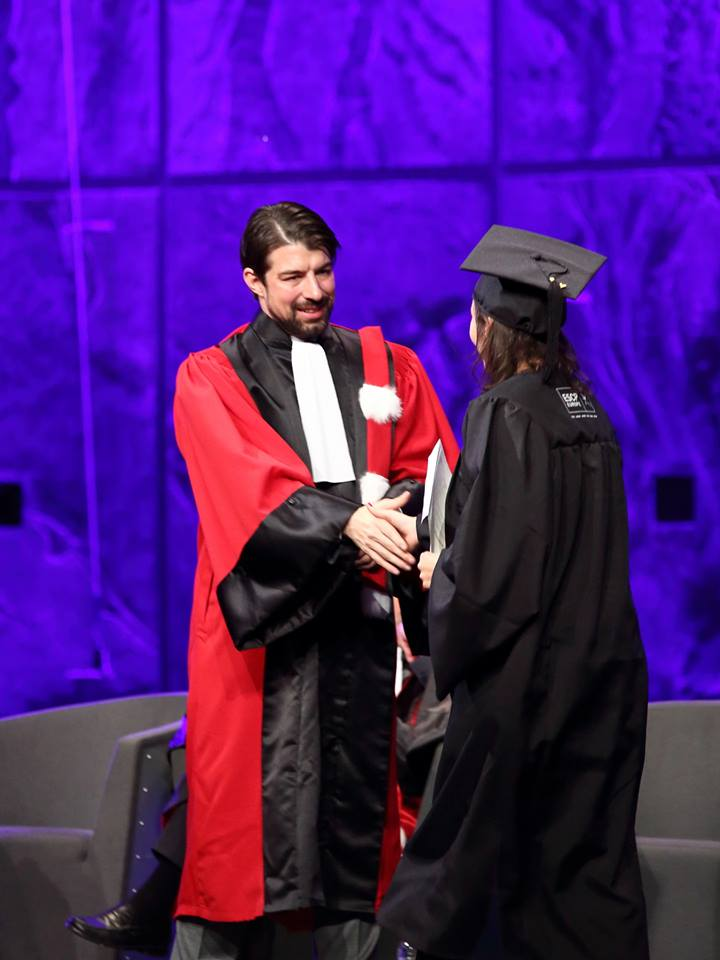 Andreas Kaplan